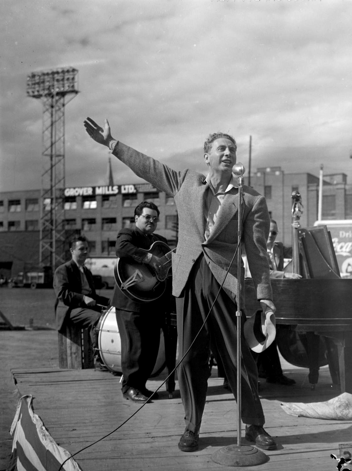 French singer Charles Trenet gives a show with a few musicians at a rodeo held in Delorimier Stadium in Montreal, Québec, Canada.